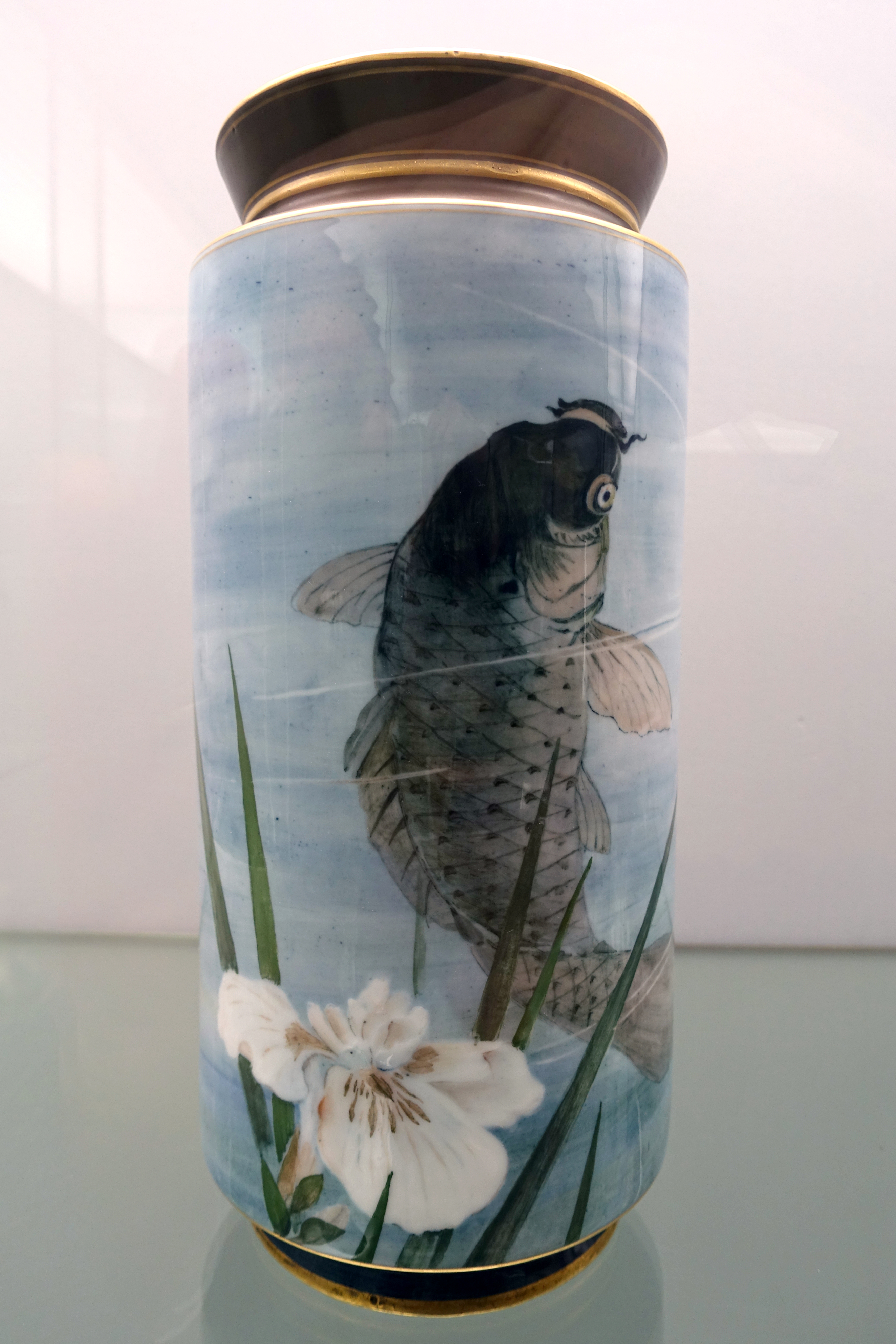 Exhibit in the Bröhan Museum, Berlin, Germany. This work is in the public domain because the artist died more than 70 years ago.